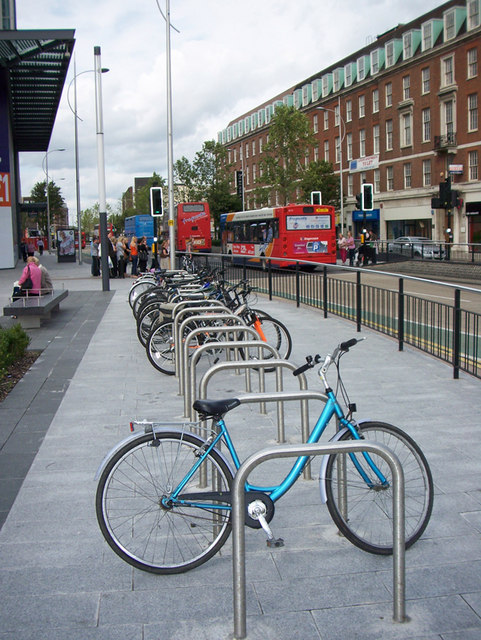 Cycle Rack, Ferensway, Hull This facility is outside the recently opened St. Stephen's shopping centre. Clearly not many customers are expected to arrive on bicycles.